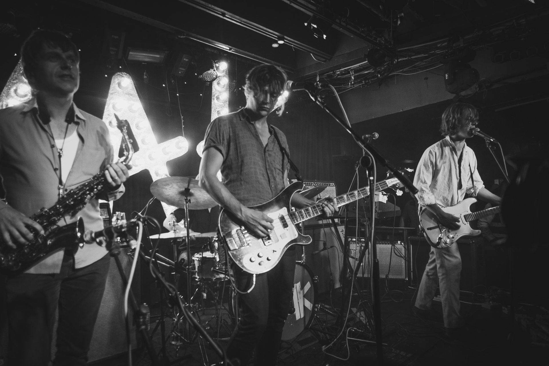 Yak (band)